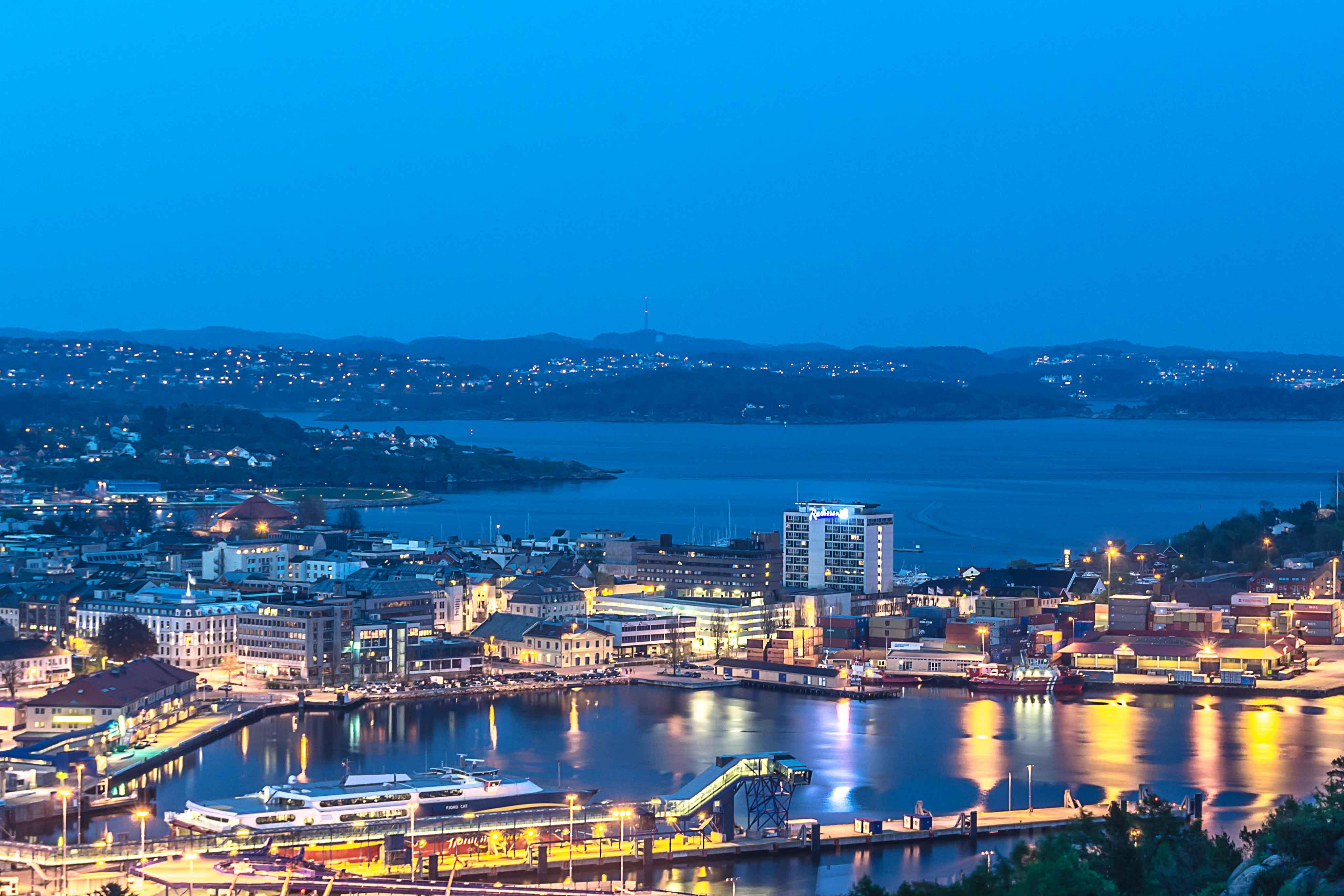 Kristiansand captured during Blue Hour